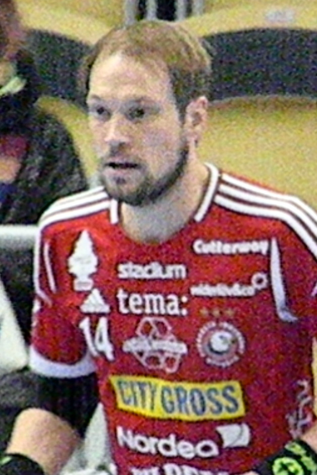 Hannes Öhman, a floorball player from Finland